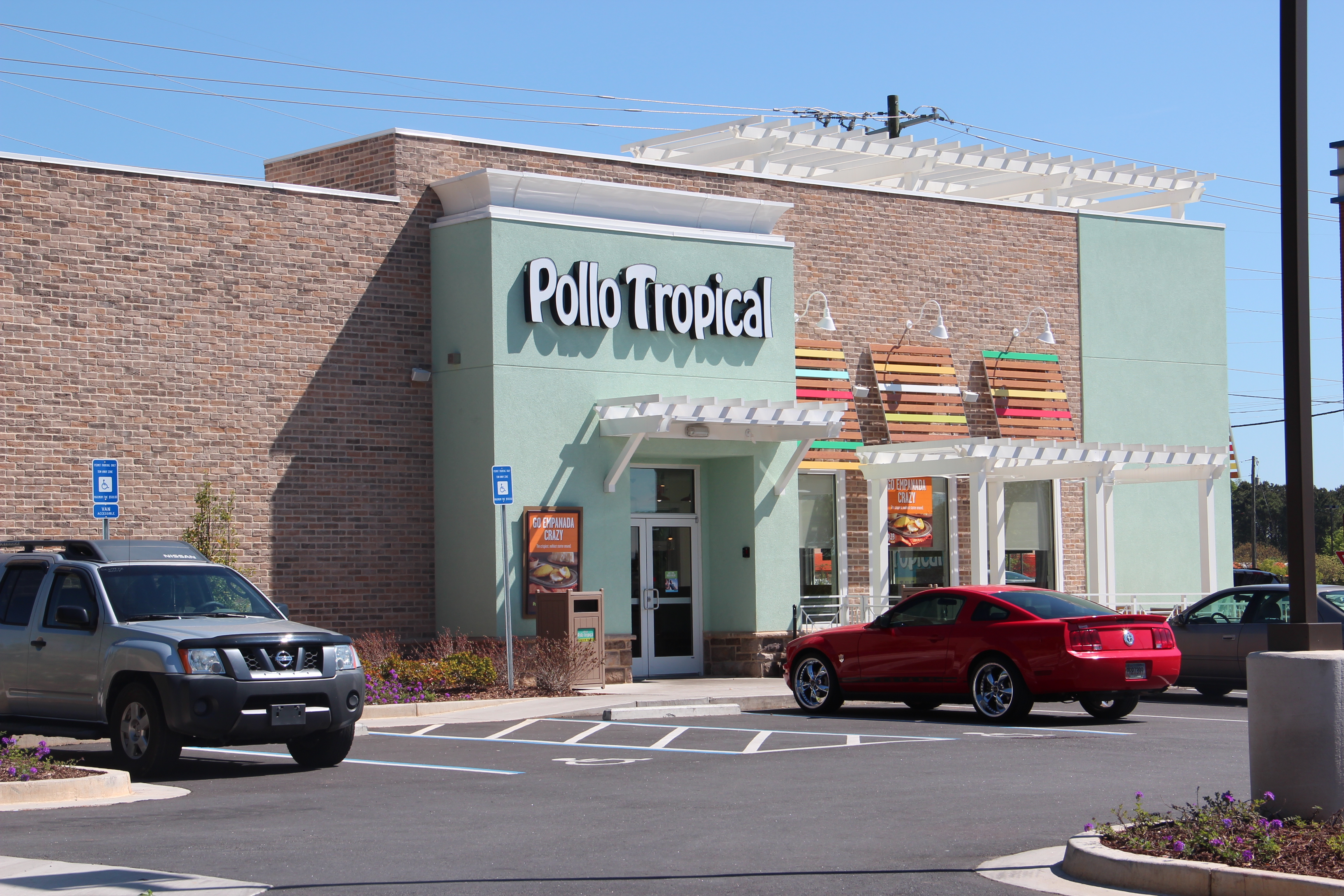 Pollo Tropical restaurant in Woodstock, Georgia